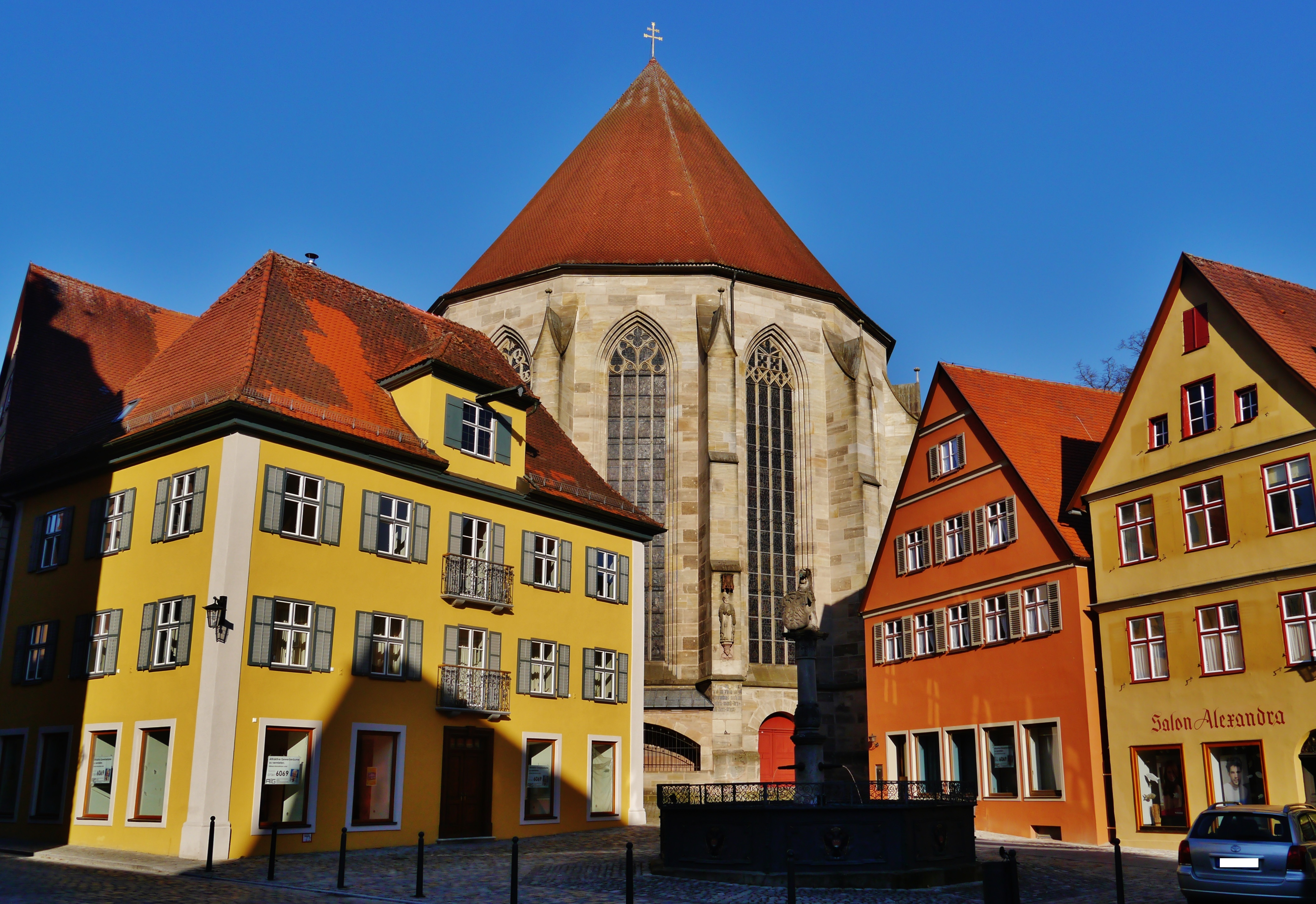 Square of the Old Town Hall with the Choir of St. George's Minster, Dinkelsbühl, Bavaria, Germany